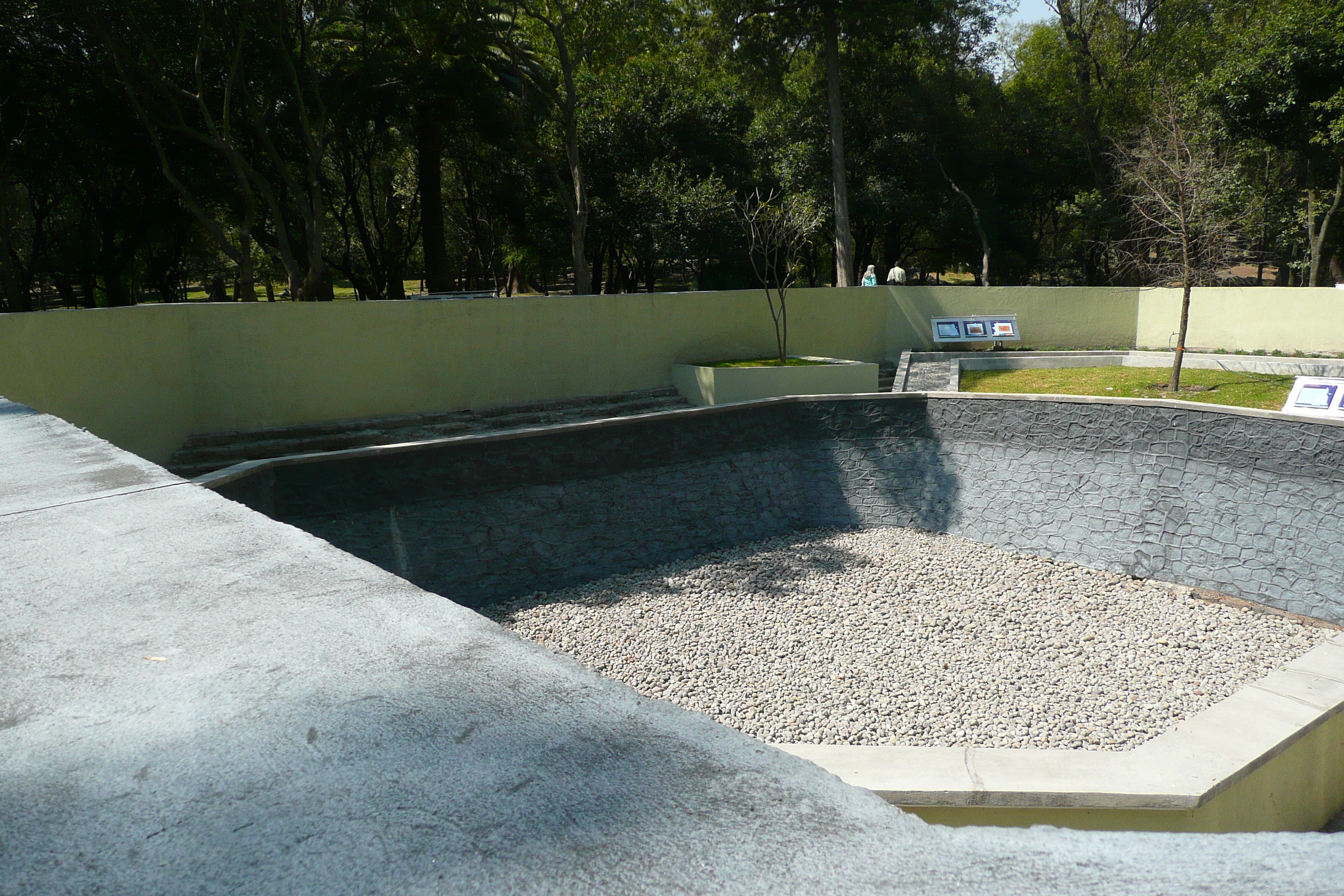 Interior view of the little pool or Moctezuma´s bath, located in the Bosque de Chapultepec in Mexico City, southeast side of the hill of Chapultepec, photo taken on October 23, 2010.